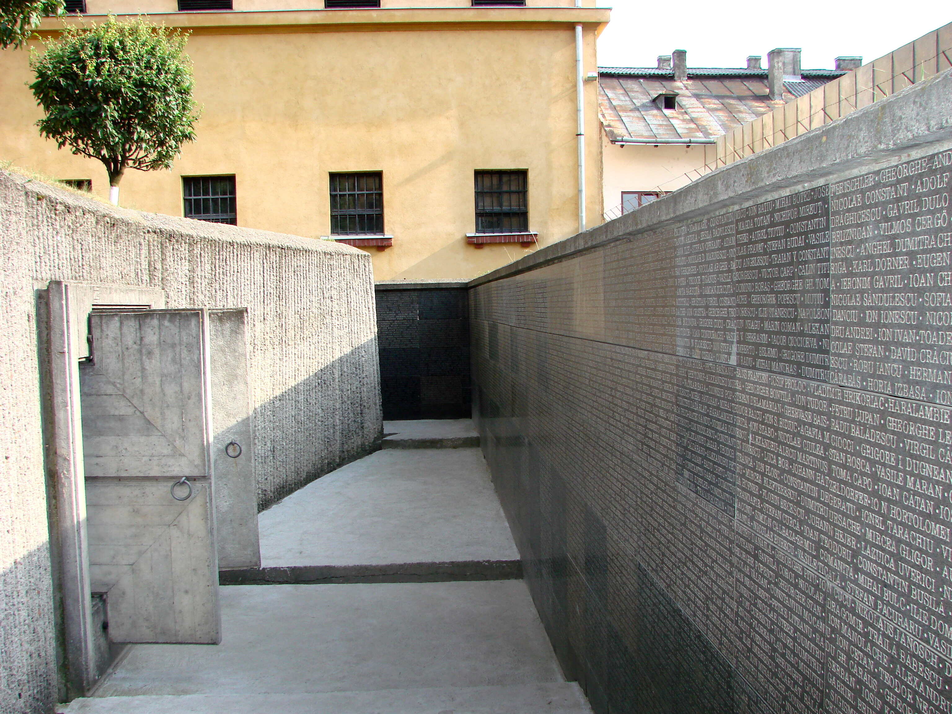 Memorial Wall, Museum of Arrested Thought, Sighet, Romania. June 2007.